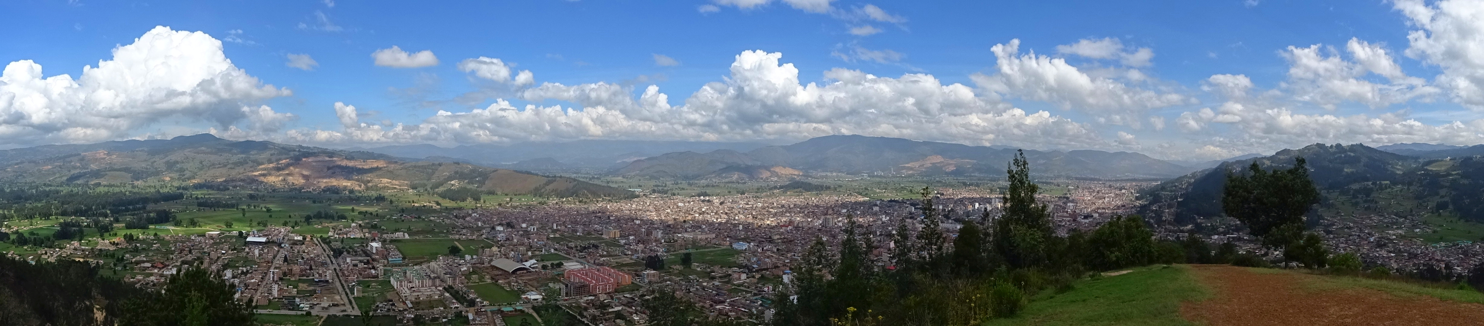 Panorama of Sogamoso, Iraca Valley, Boyacá, Colombia